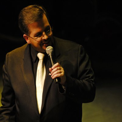 Glenn Alexander on stage